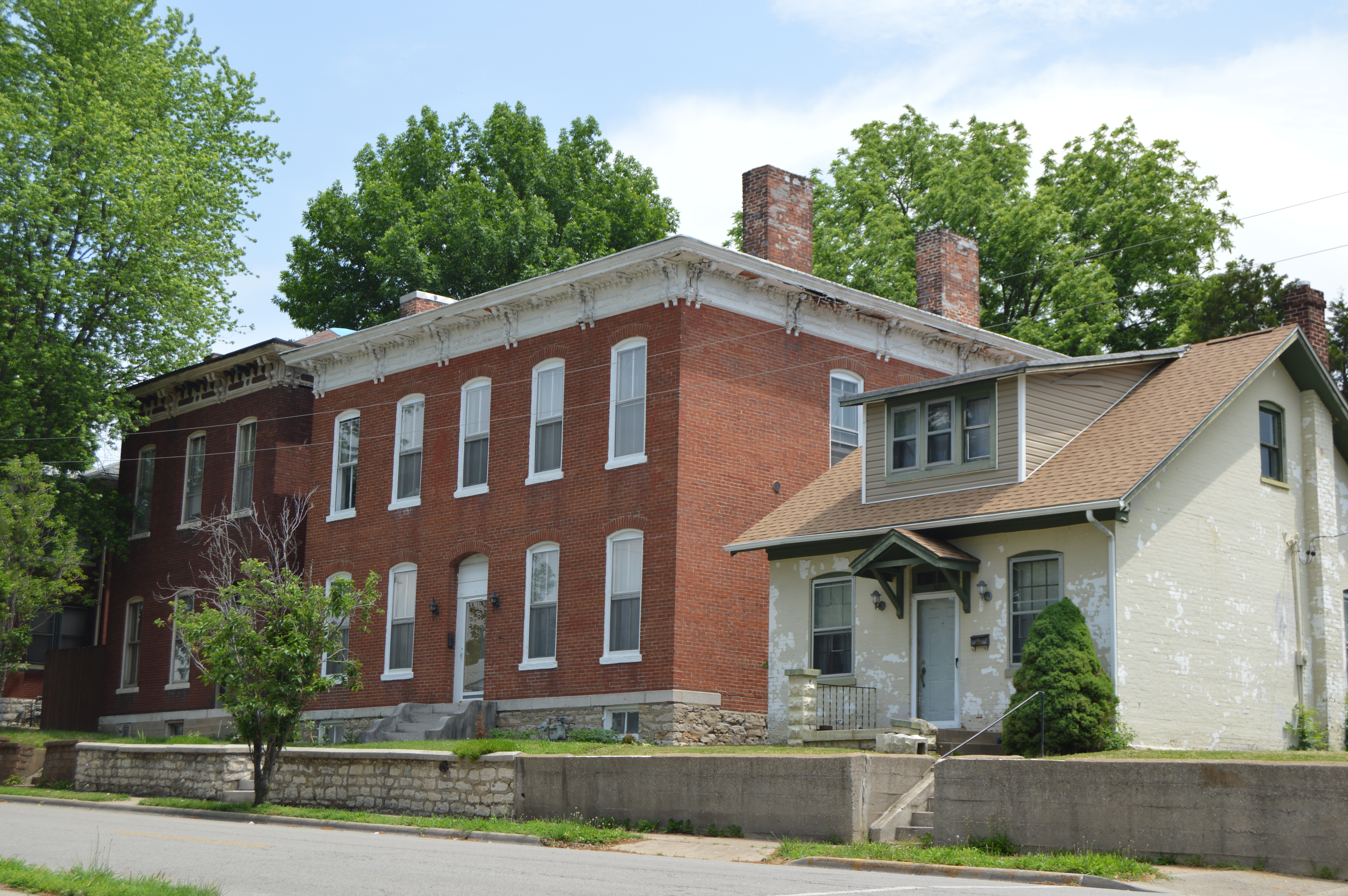 Houses on the eastern side of Charles Street north of the Garfield Street intersection in Belleville, Illinois, United States. This block is part of the Belleville Historic District, a historic district that is listed on the National Register of Historic Places.